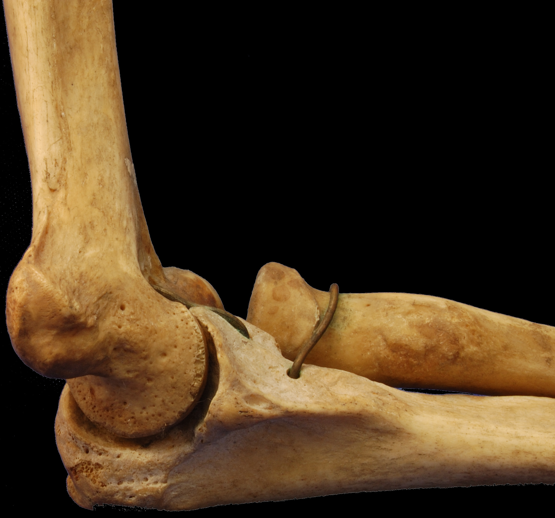 Photograph of Medial aspect of left human articulation of humerus, radius, and ulna. Keywords: Human bones, bones, elbow, radius, ulna, humerus, medial epicondyle.